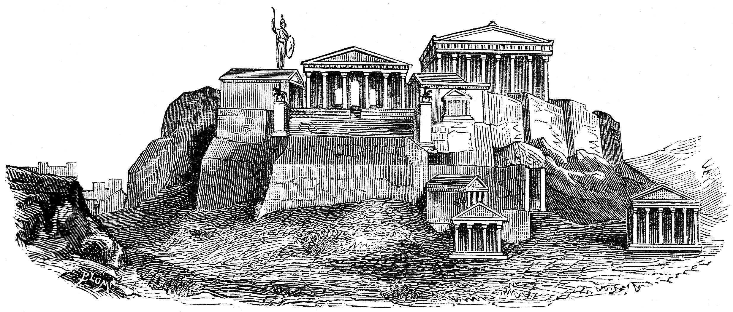 Illustration from "Illustrerad verldshistoria utgifven av E. Wallis. volume I": Acropolis of Athens at the time of Pericles.